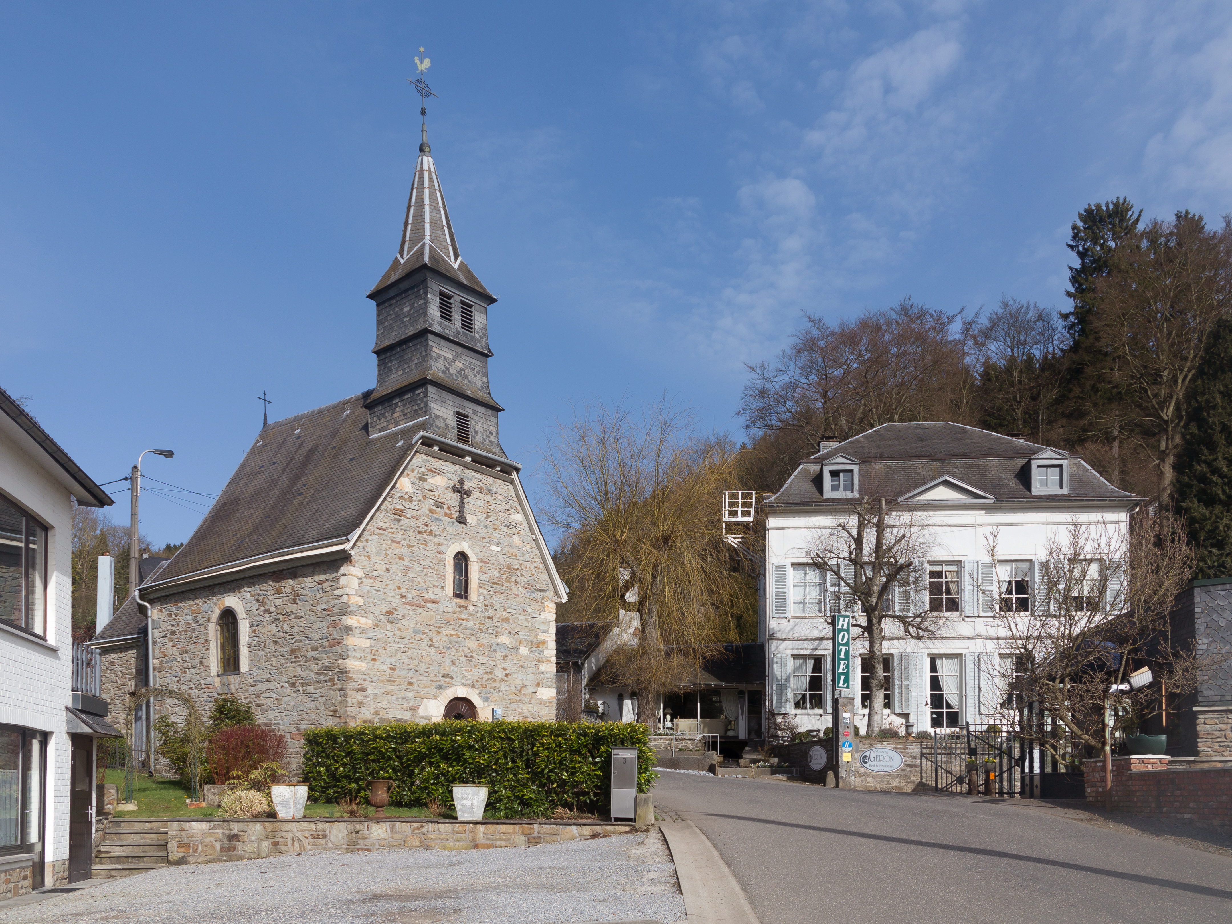 Bévercé, chapel: la chapelle Saint-Antoine